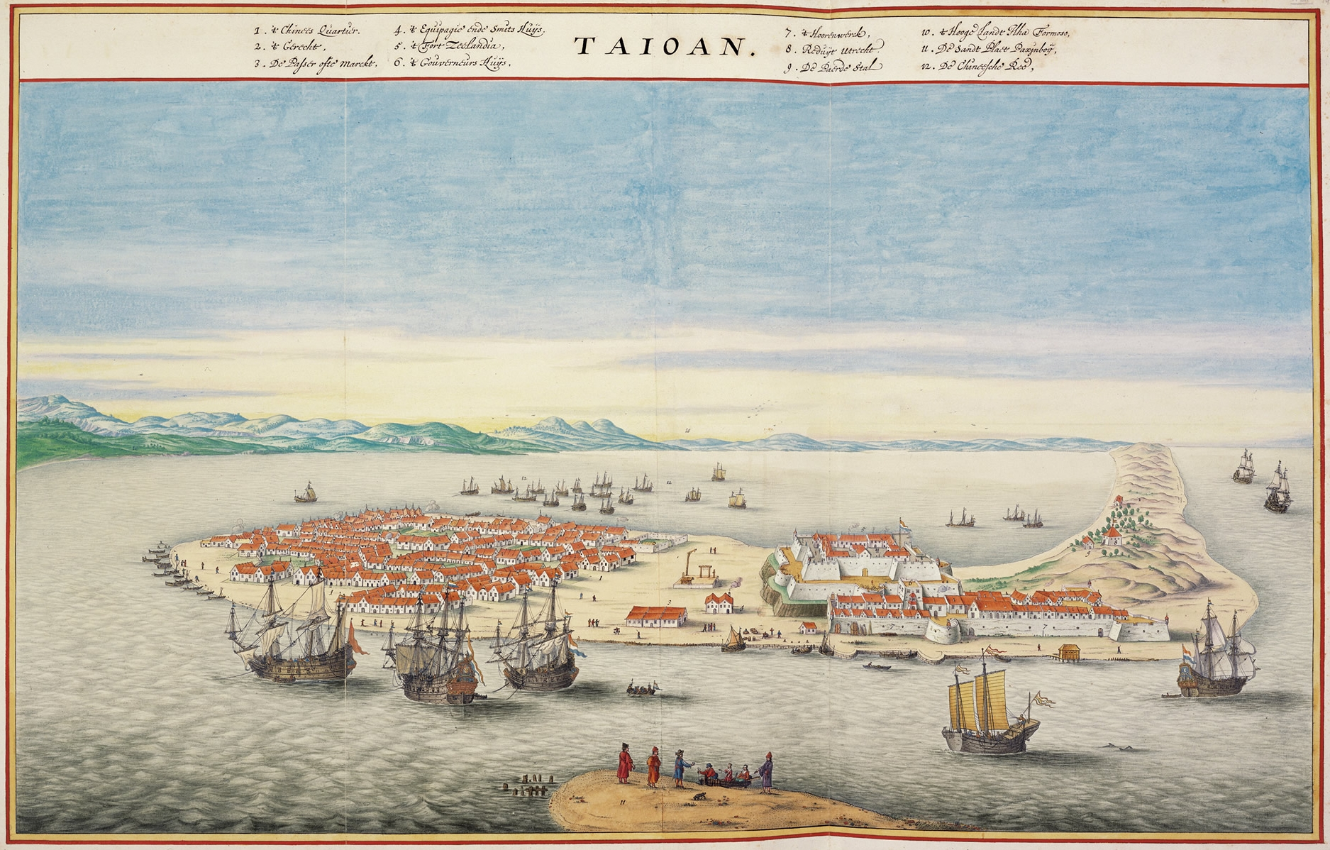 17th century watercolor drawing of the Dutch East India Company's Fort Zeelandia on the island of Formosa. The survey image includes a legend identifying government buildings, markets, neighbourhoods etc.